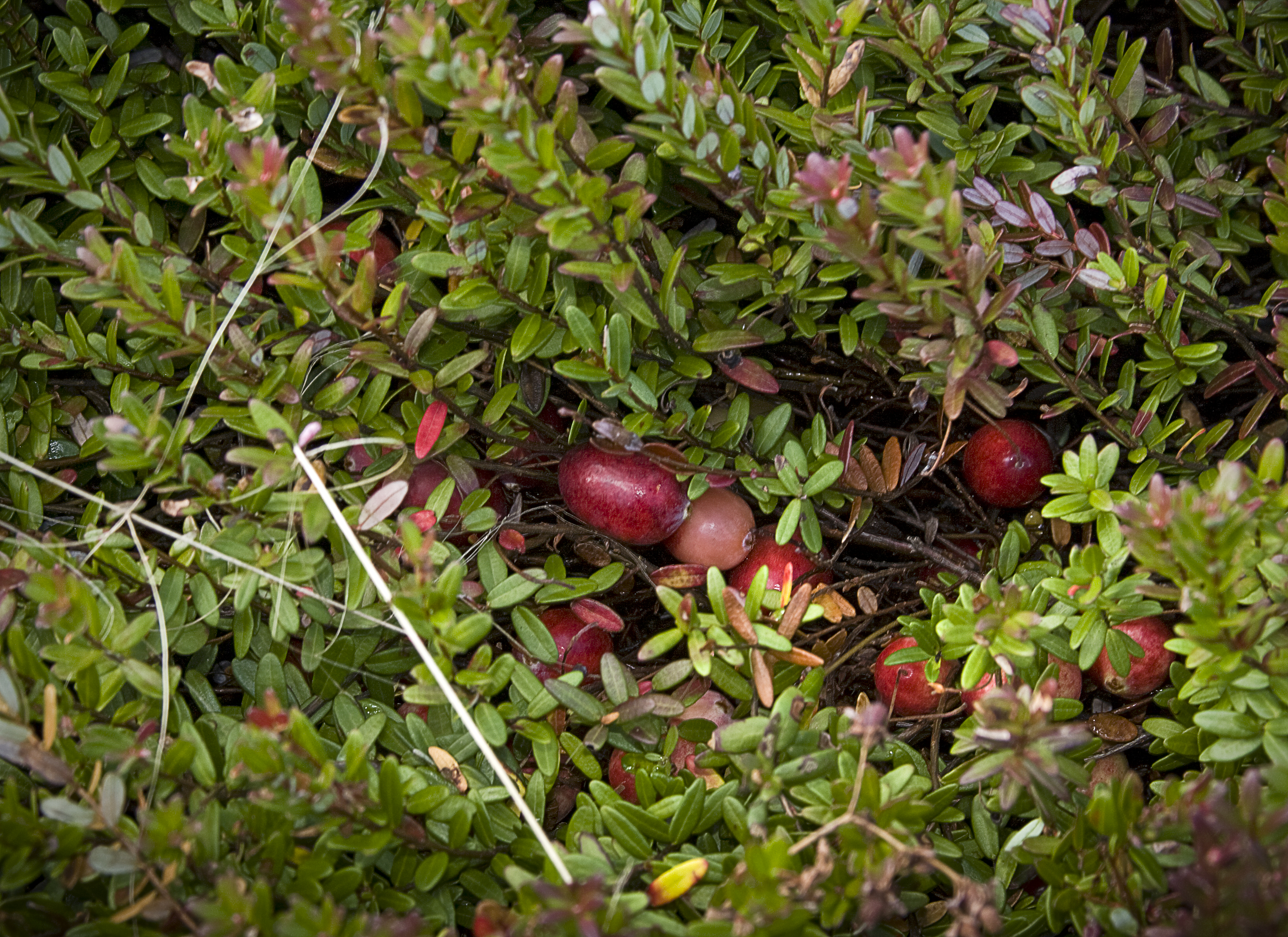 growing cranberries